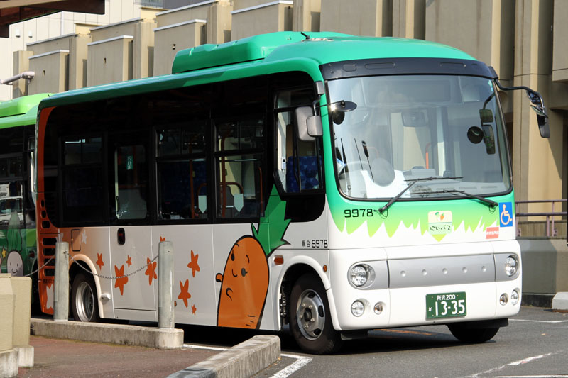 Niiza City Community Bus "Niibus" 新座市コミュニティバス「にいバス」